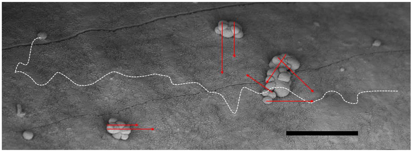 The favorable geometric situation for α-particles in small-scale metastases (e.g., in the adjuvant setting) is depicted in a scanning electron microscopy micrograph of micro-metastatic clusters from ovarian cancer on the peritoneal lining (mouse). The range of the α-particles in red (here ~50–70 μm), can hardly reach the surrounding normal healthy cells other than possibly the mesothelium and its sub-layer. They cannot reach the epithelial cells of the intestinal lining. The situation for β− particles on the other hand, shows that a great deal of its energy will be deposited far away from the binding site and possibly into healthy tissue as demonstrated by the white dashed line (here ~700 μm). Consequently, it may add to side effects. Bar equals 100 μm.